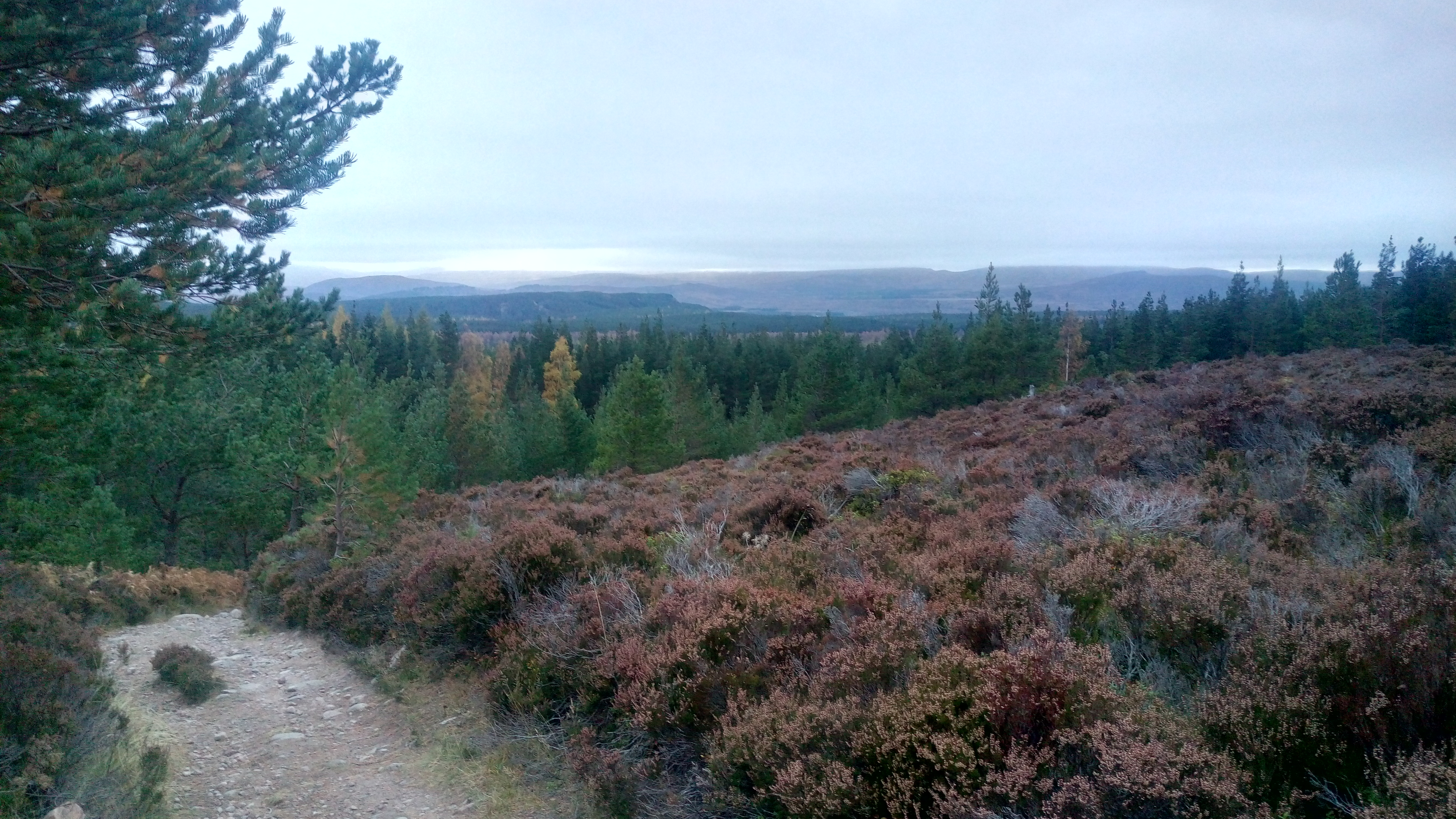 Usual vegetation in the Cairngorms: heather, Scots Pine and Silver Birch in Glen Feshie, en route to Sgor Gaoith.